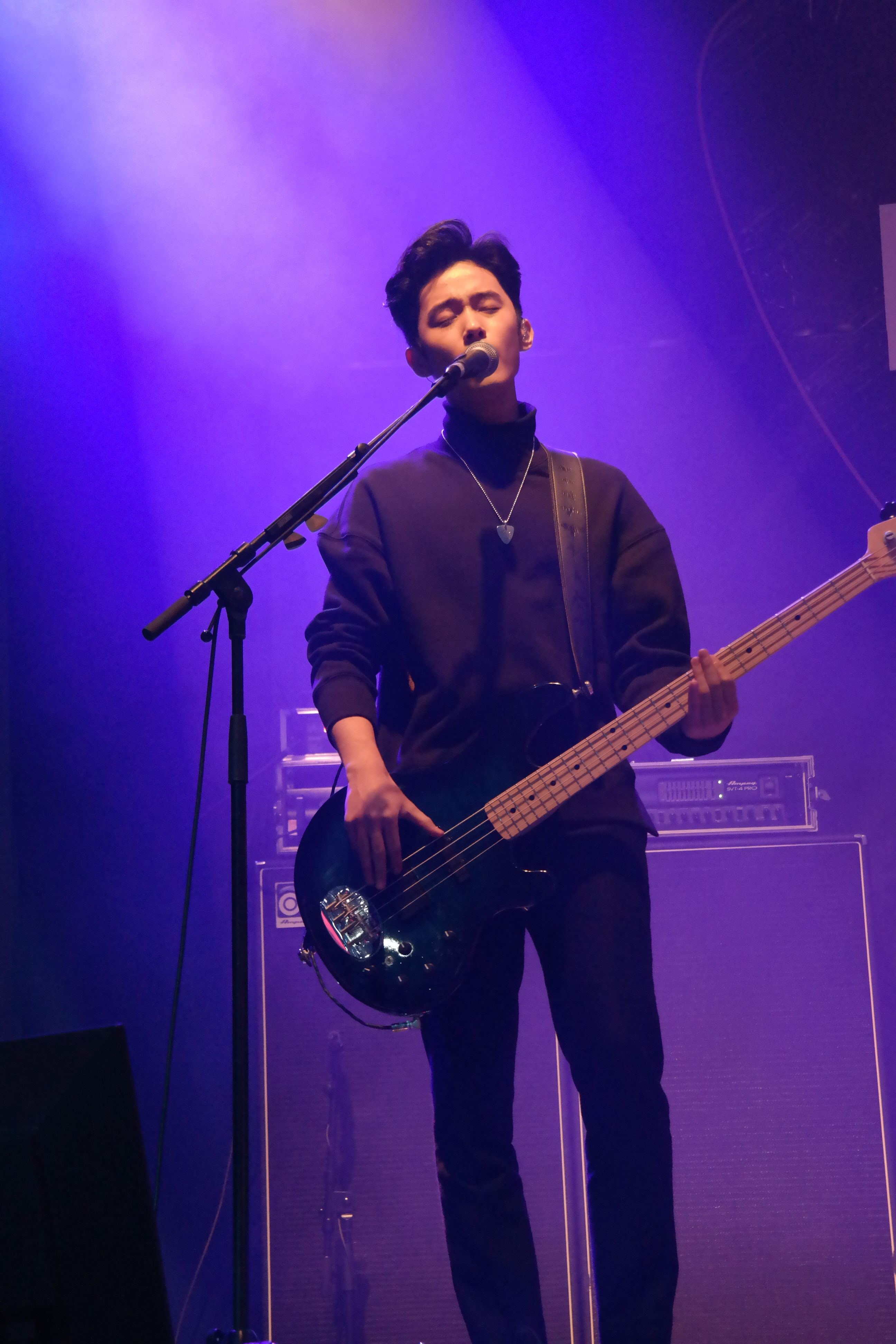 FTISLAND in Paris, La Cigale